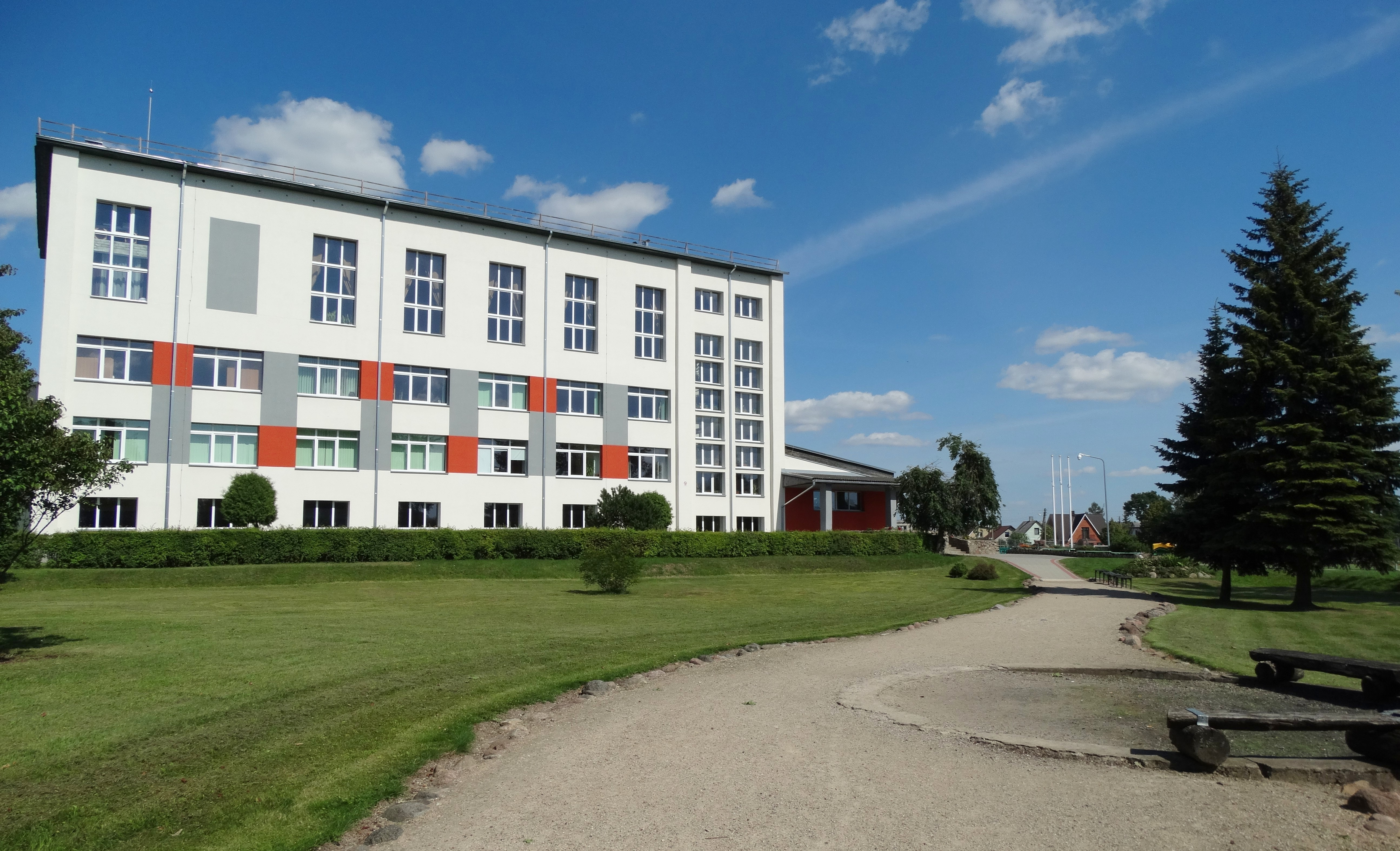 Lizdeika gymnasium, Radviliškis, Lithuania